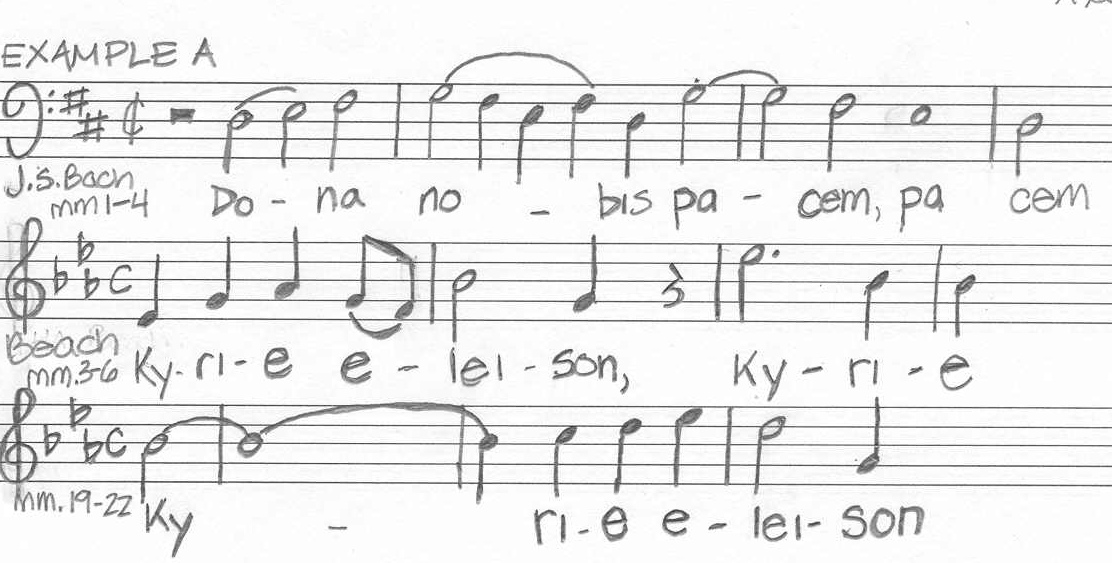 Beach's Mass in E Flat and Bach's B-Minor Mass.